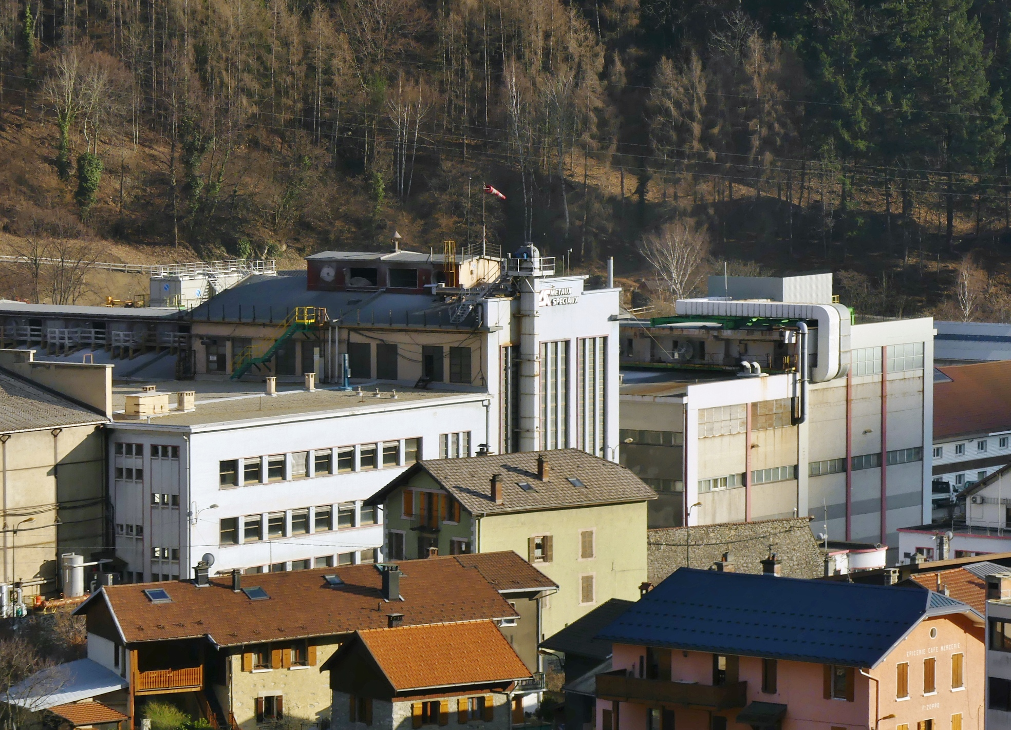 Sight, from the railway line, of MSSA (Métaux Spéciaux) plant and head office, in Saint-Marcel in the Tarentaise valley, Savoie, France.